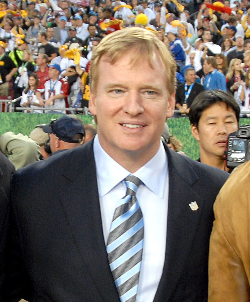 U.S. Army Gen. David H. Petraeus, commander, U.S. Central Command, poses for a photo with NFL Hall of Famers Lynn Swann, Roger Craig, John Elway, and NFL Commissioner Roger Goodell during Super Bowl XLIII, Feb. 1, 2009, at Raymond James Stadium in Tampa, Fla.